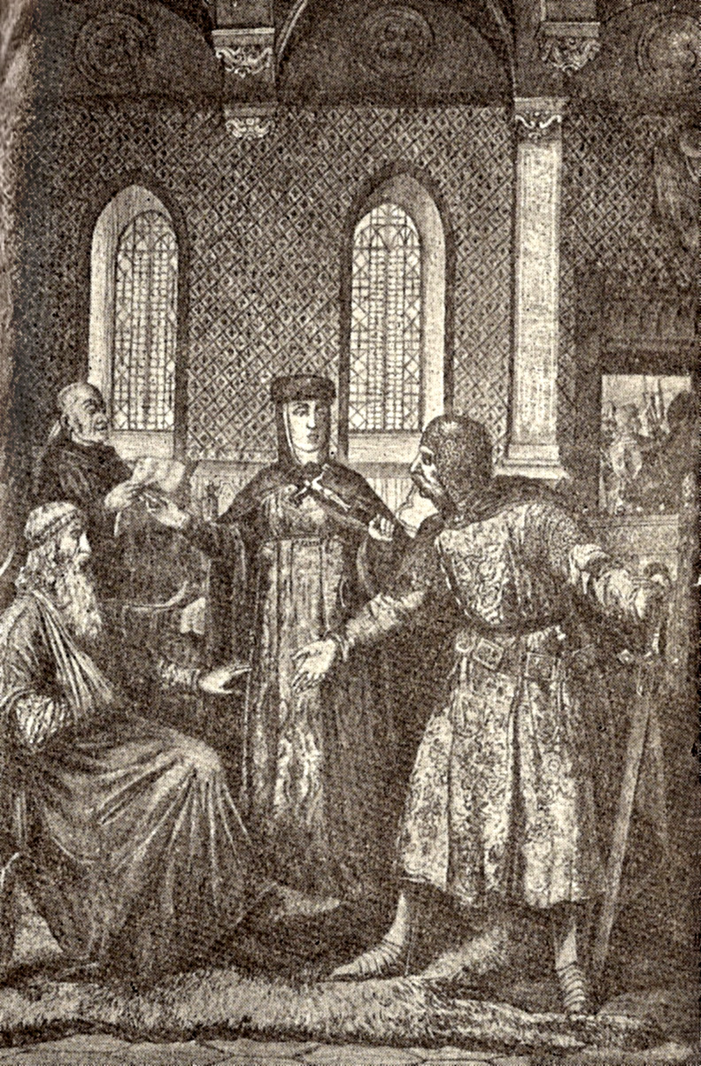 Hedwig of Andechs ends the feud between Henry I of Poland and Category:Konrad I of Masovia